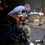 Fin Greenall performing at a radio session for Couleur 3 in Lausanne, Switzerland 2008